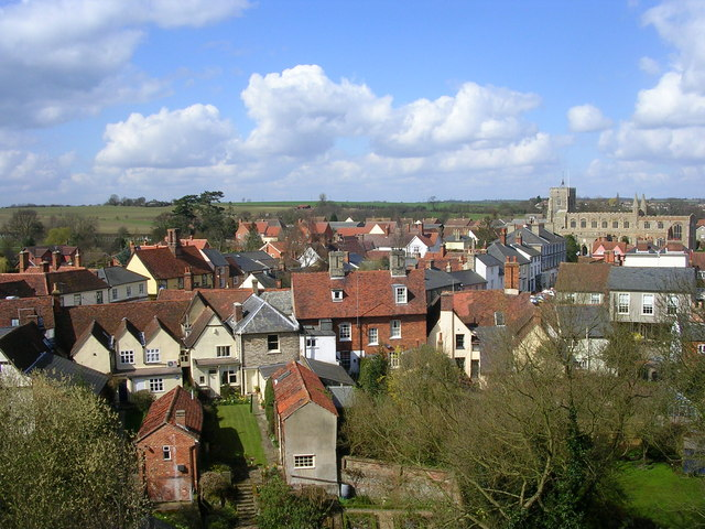 View over Clare This view covers two grid squares - TL7645 and TL7745. I have put it into TL7745 as that was the grid square I was in when I took the photo. It was in fact taken from the ruins of the old castle at TL771453.